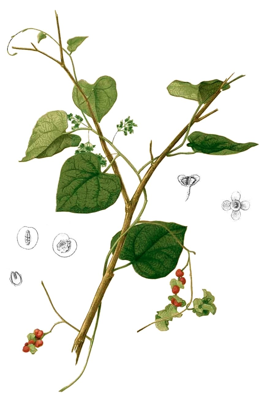 Plate from book